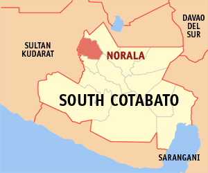 Map of the South Cotabato showing the location of Norala